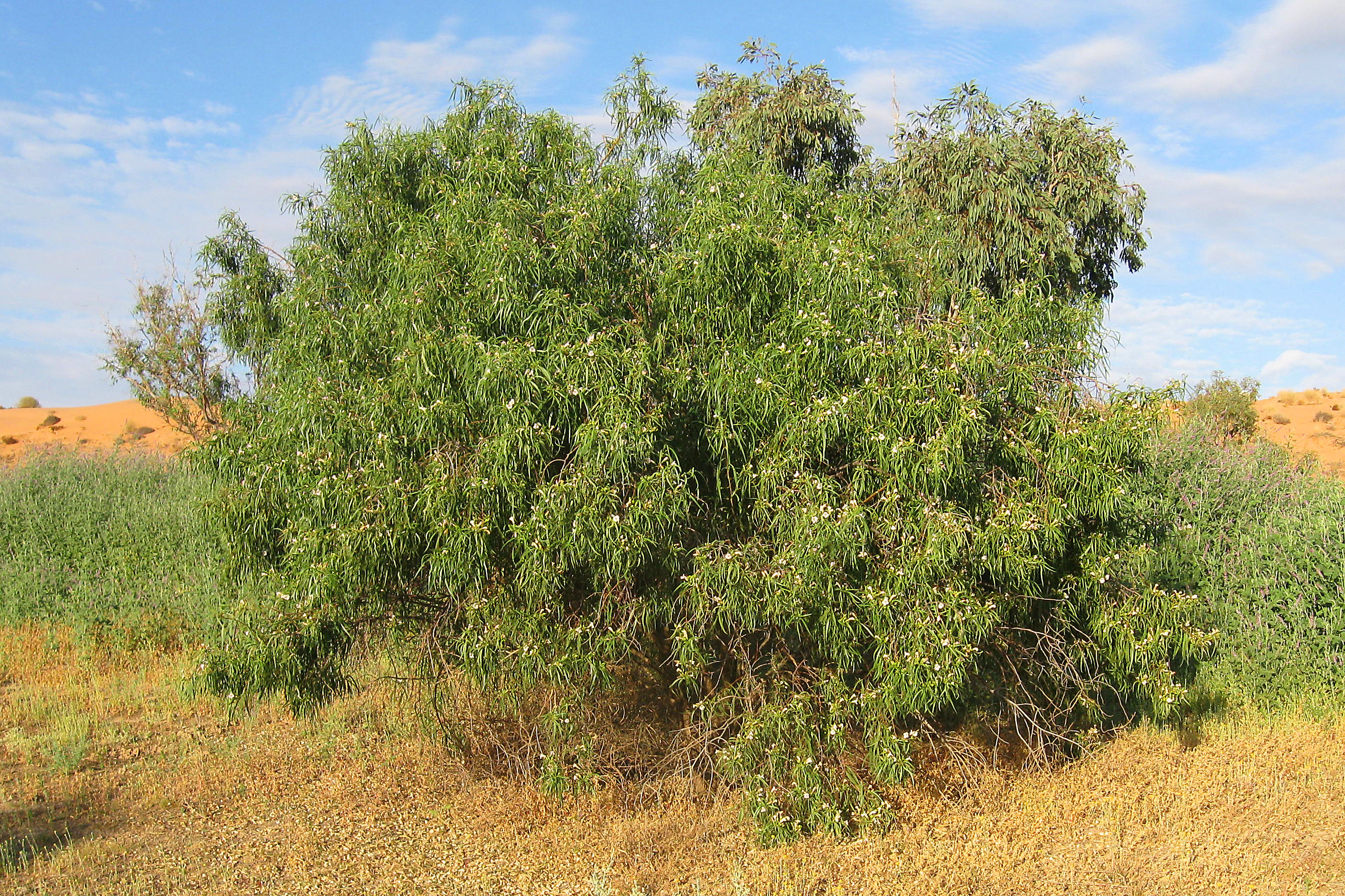 Eremophila species growing near Eyre Creek in the Simpson Desert, Australia